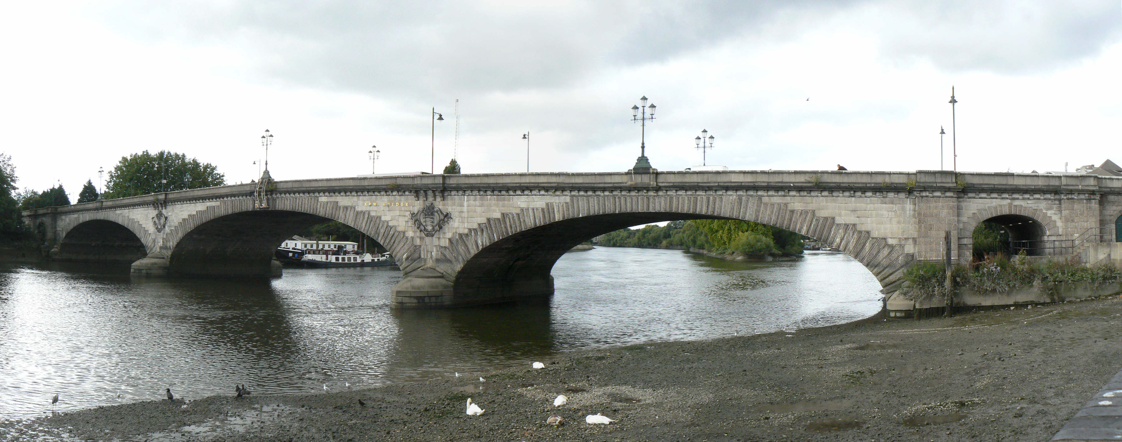 Kew Bridge over the Thames River, looking upstream